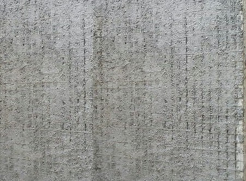 Repellado (Plastering) used on top of a metallic grid reinforcing a wall